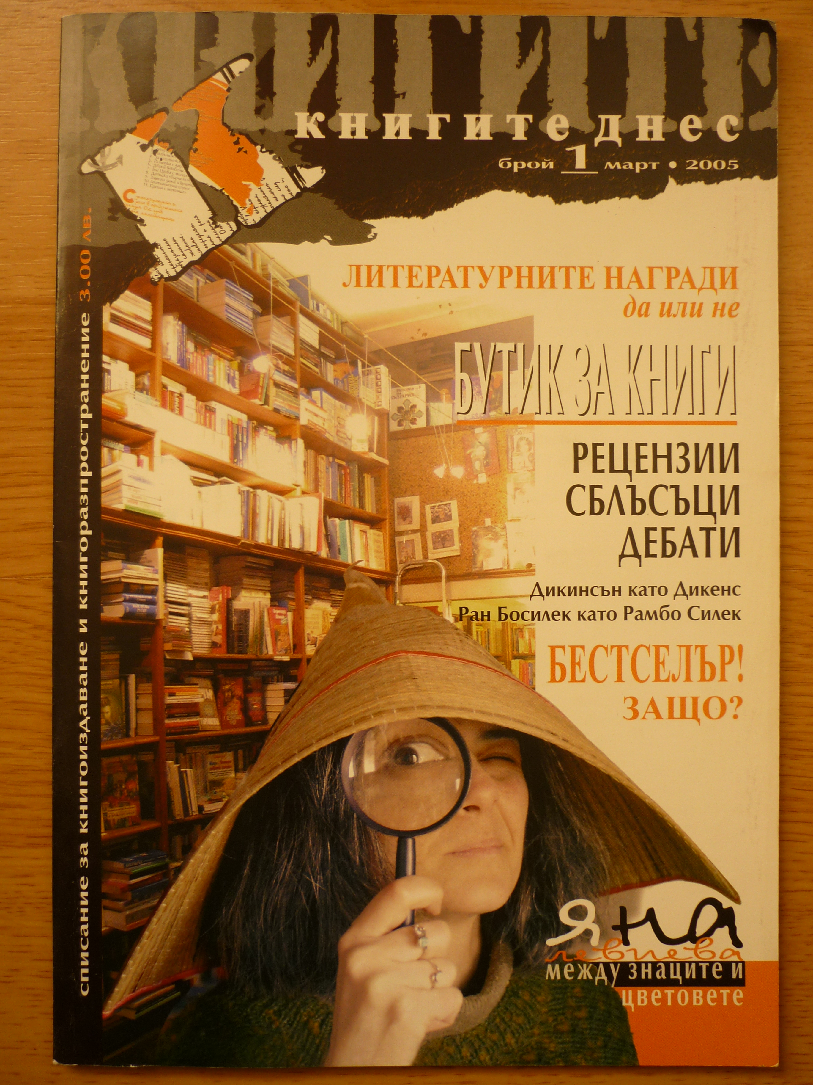 „Knigite dnes“, vol. 1, March 2005